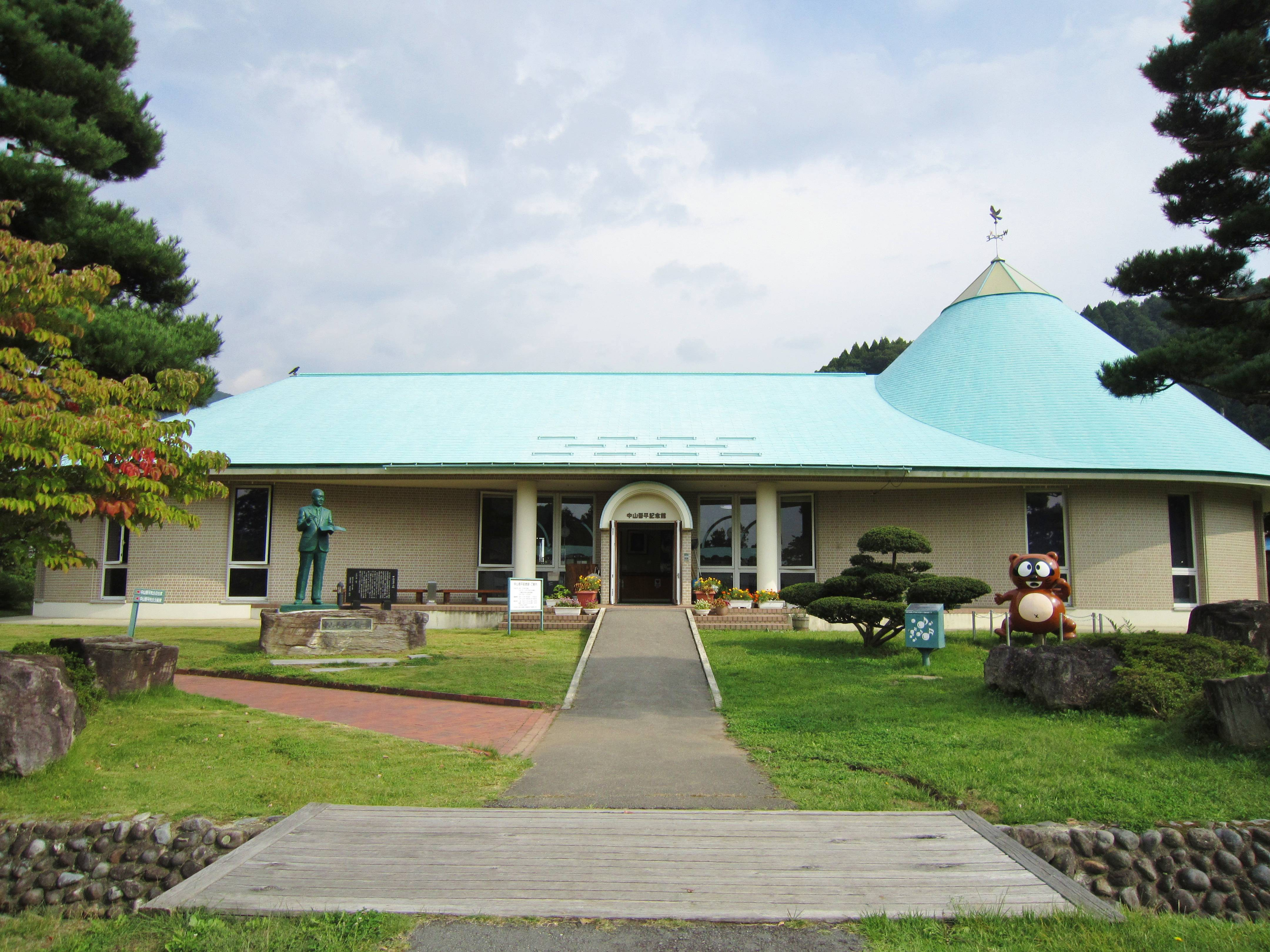 Nakayama Shinpei Memorial Hall.